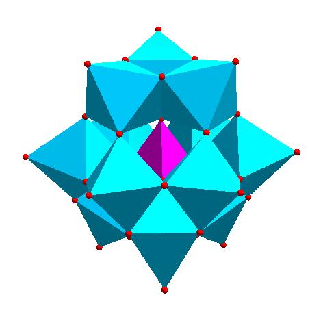 Structure of Keggin polyoxometalate